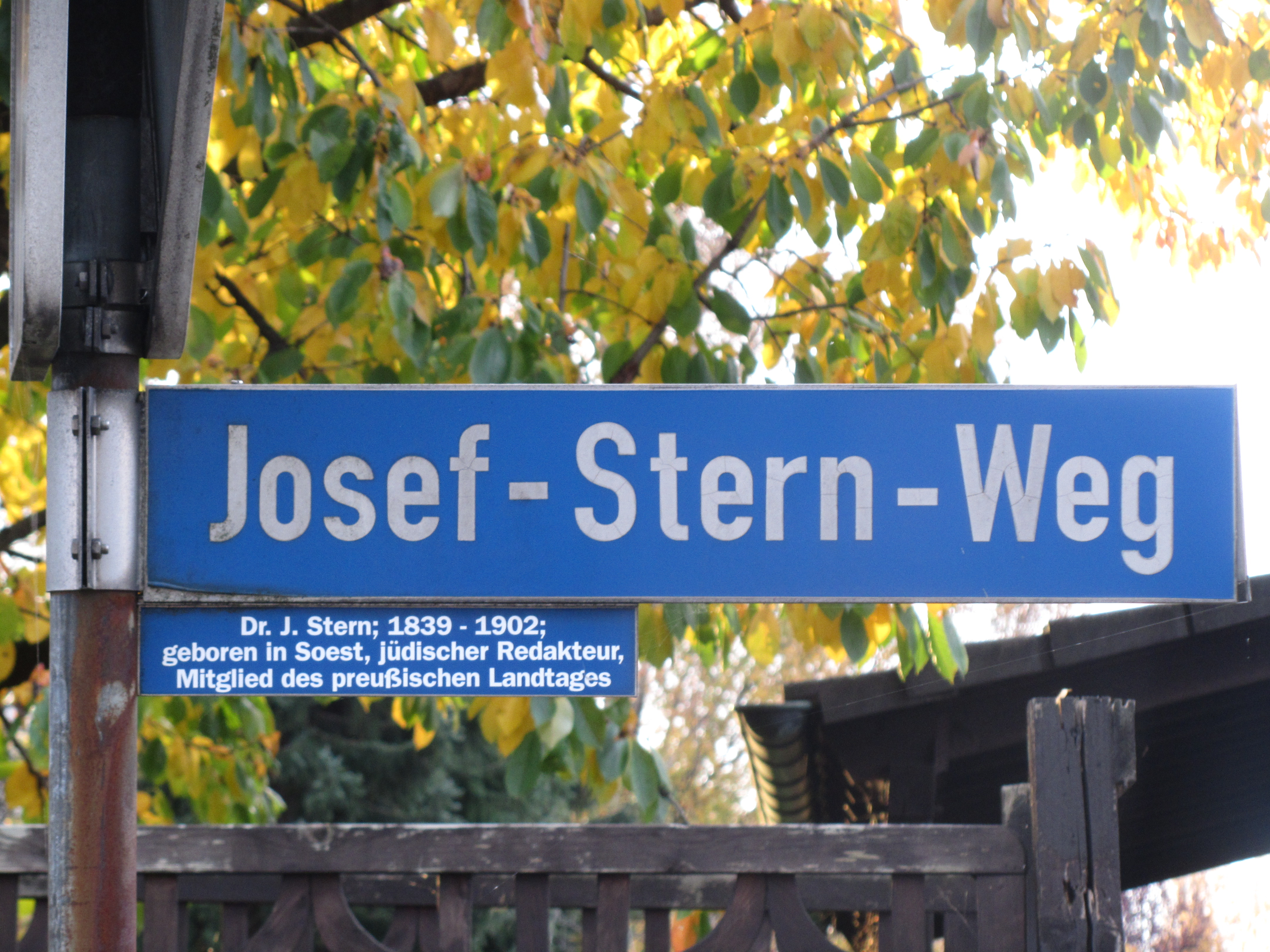 Street sign of street Josef-Stern-Weg in Soest, Germany - Josef Stern was a 19th century journalist and politician born in Soest